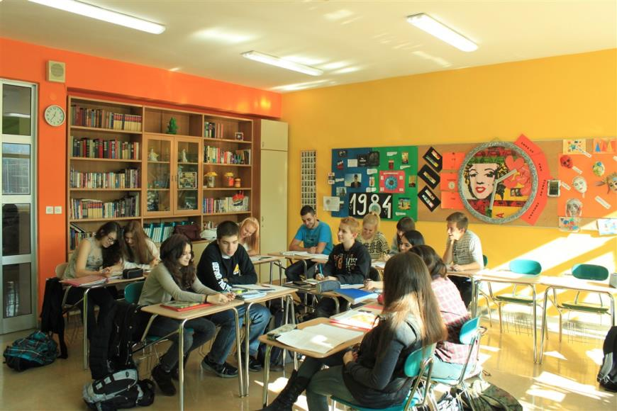 NOVA International Schools High School